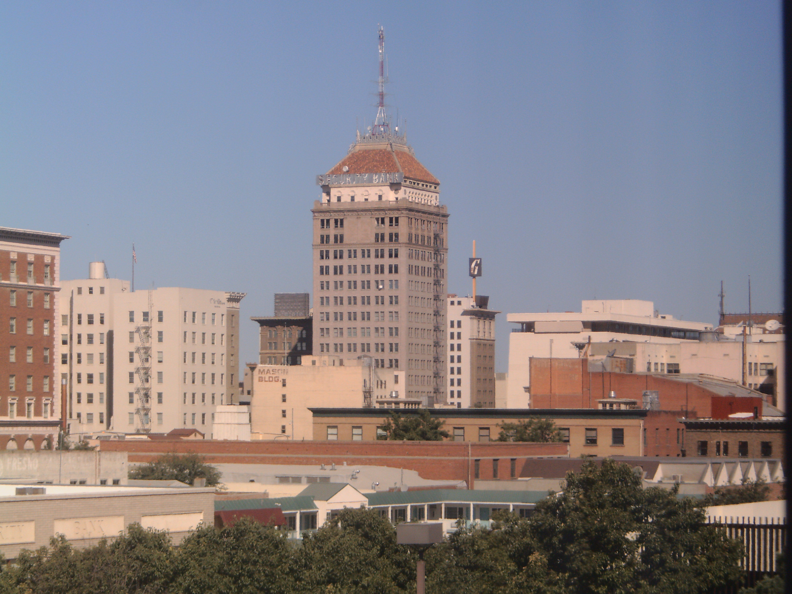 Downtown Fresno